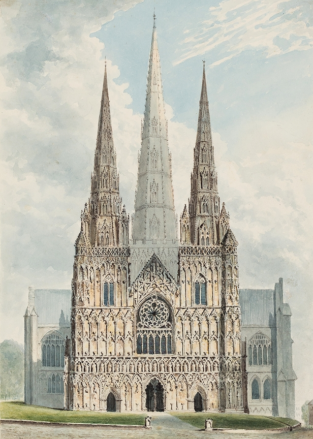 The West Front, Lichfield Cathedral - Anon - circa 1830. Ink and watercolour. Offered for sale by Abbott & Holder, February 2019.